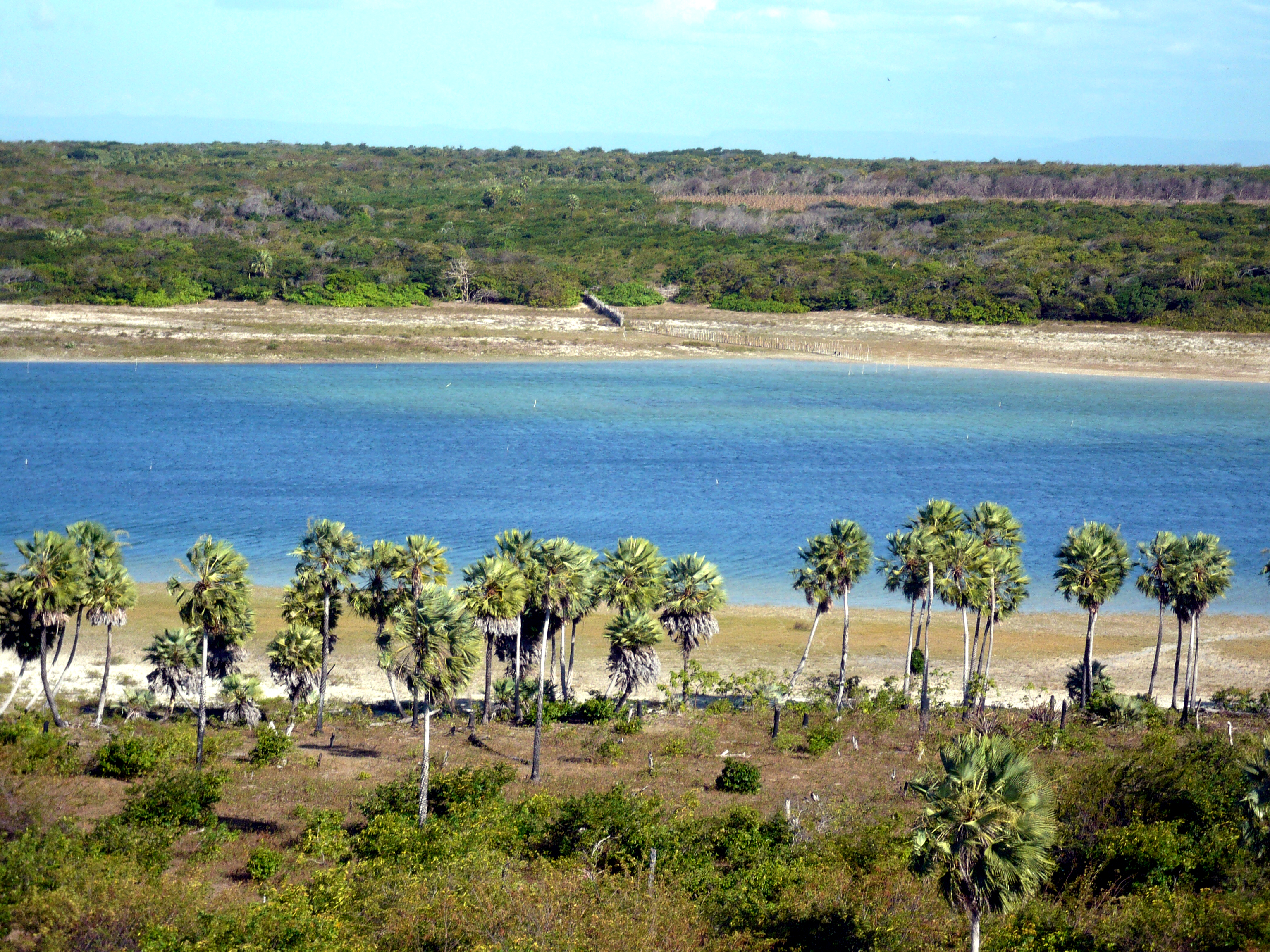 Preguiças River in the Pequenos Lençóis. Barreirinhas, Maranhão, Brazil